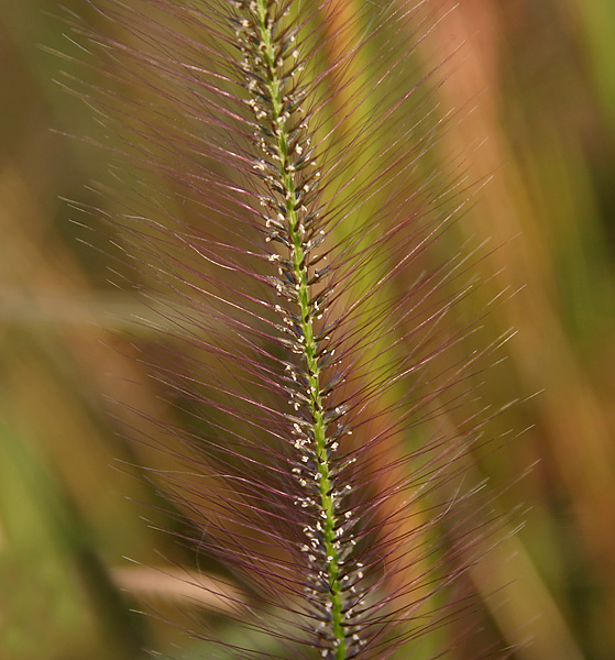 Perotis indica (L.) Kuntze (syn. Anthoxanthum indicum L.) in Herbal Garden, in Rangareddy district of Andhra Pradesh, India.